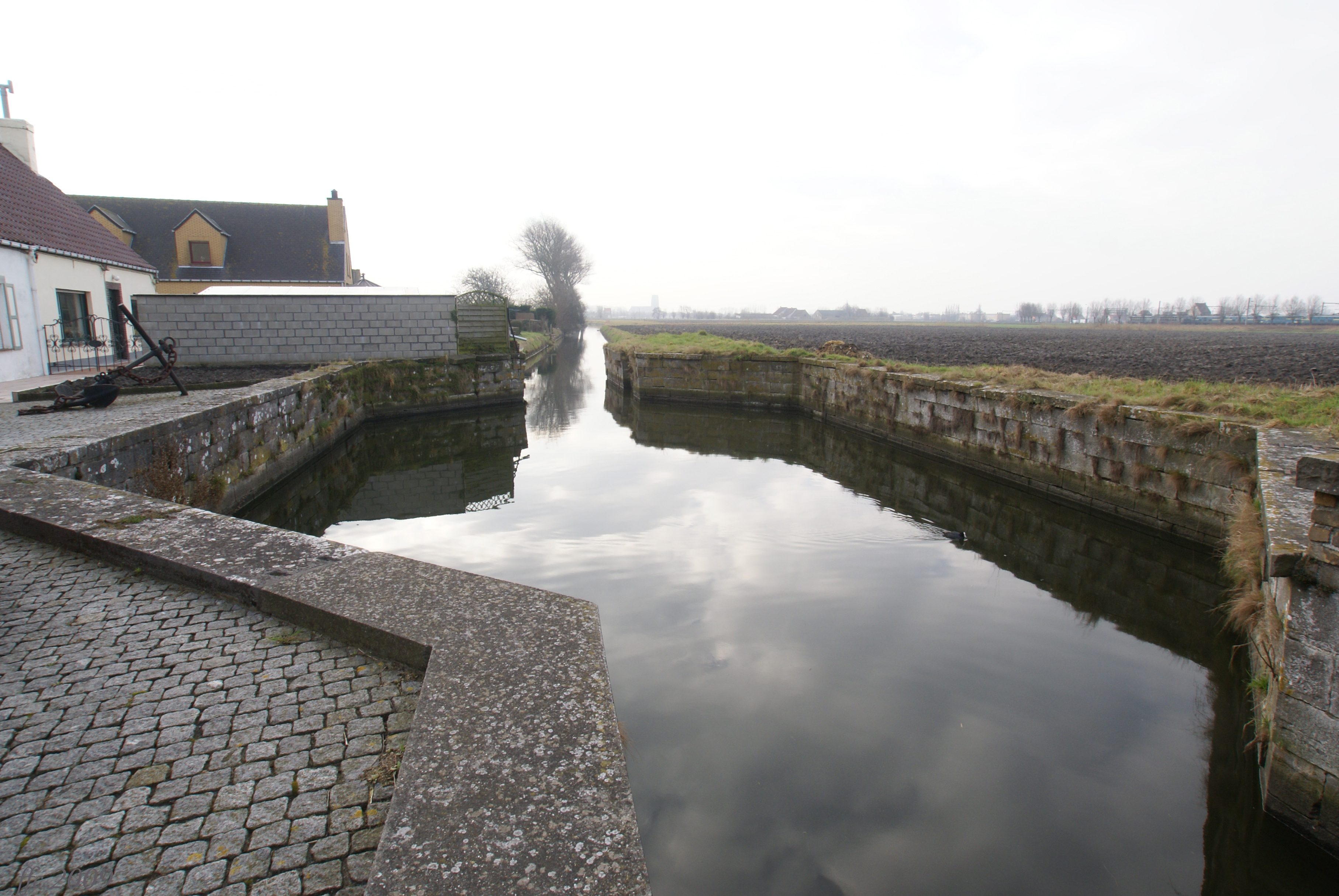 Zwankendamme (Brugge) (Belgium): Canal lock at the Lisseweegse Vaart